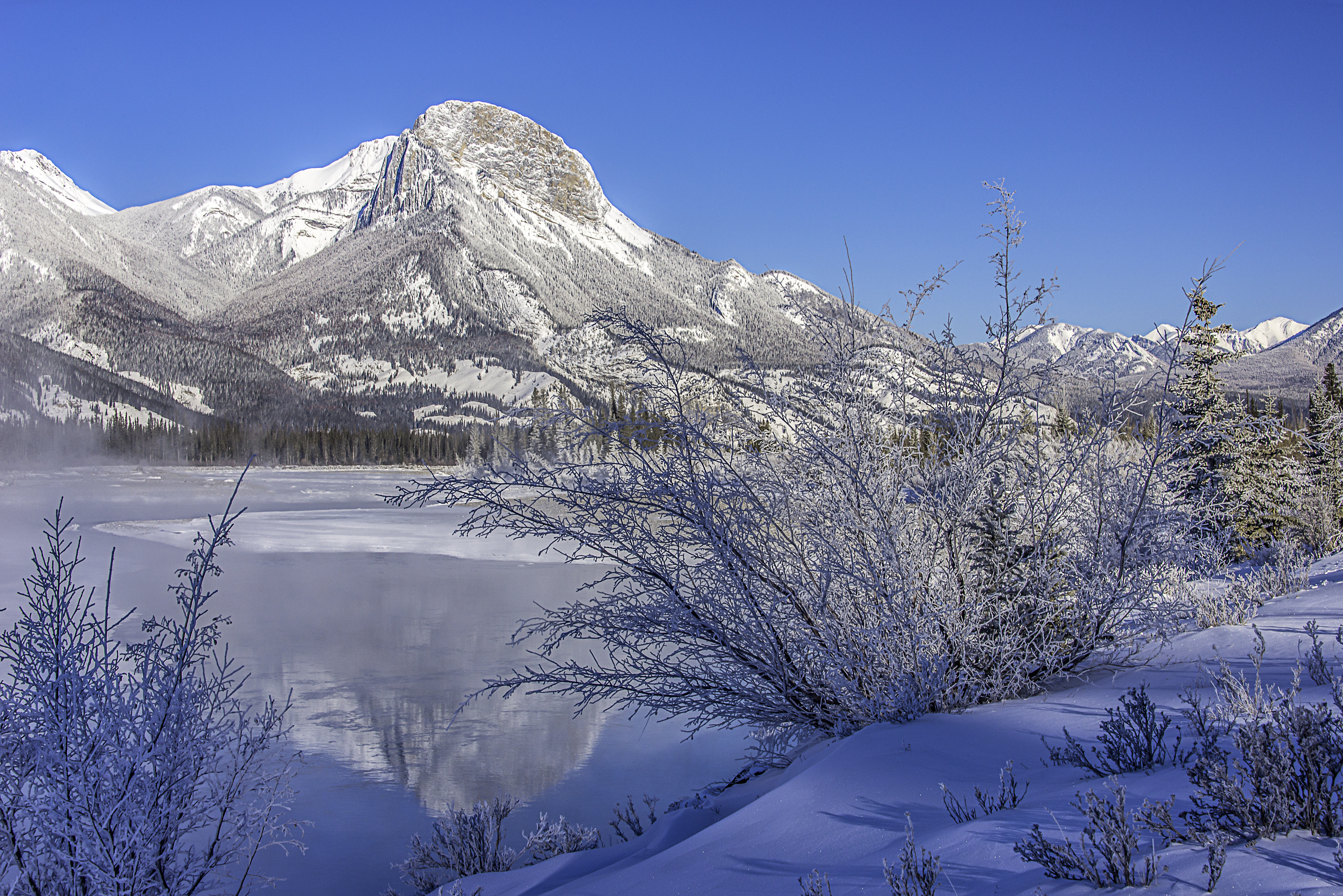 Photo taken of Roche Ronde and its reflection in this steamy, open section of the Athabasca River.